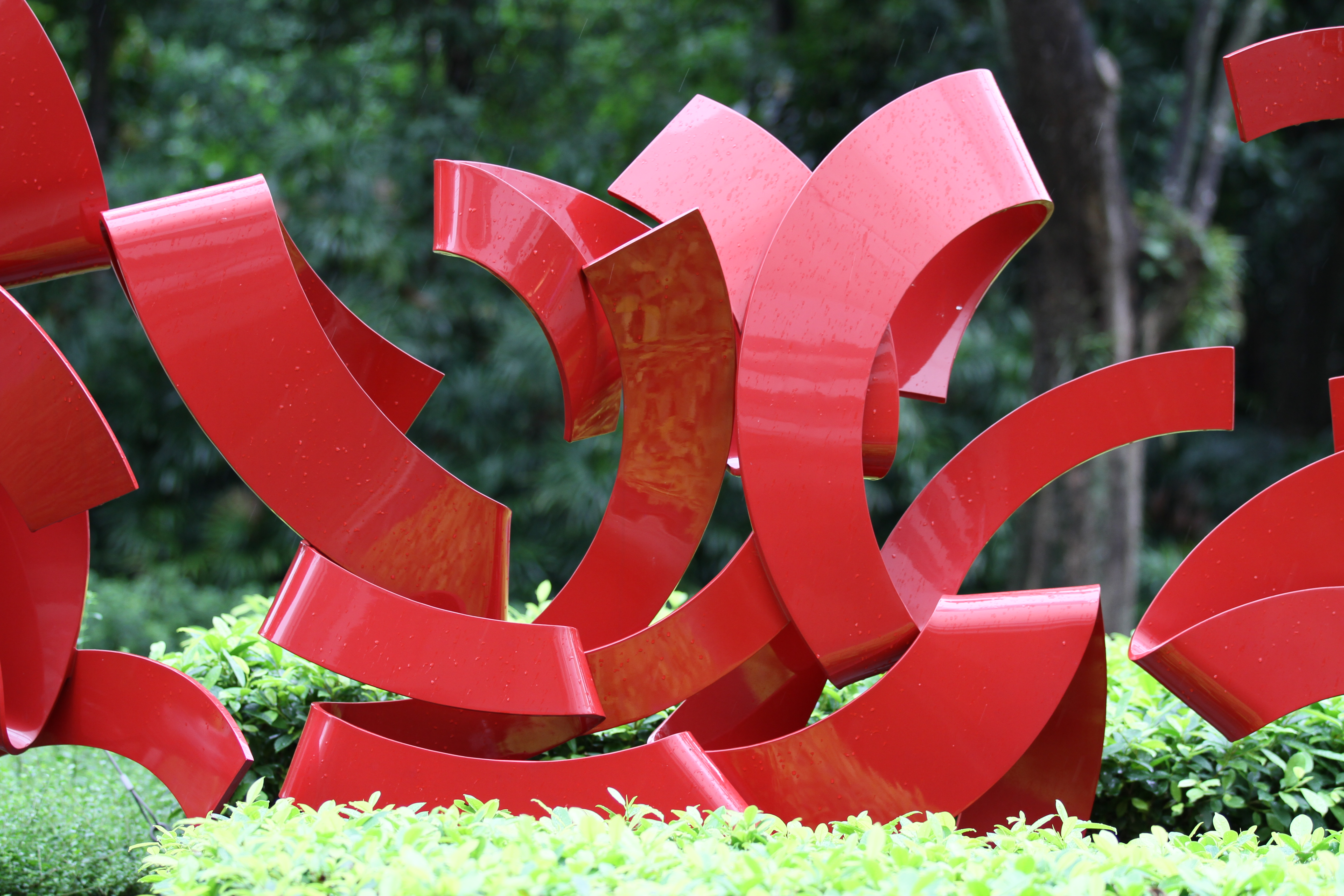 One of Singaporean artist Anthony Poon's four sculptures entitled Sense Surround #1, #2, #3 and #4, commissioned by and installed outside the St. Regis Singapore.